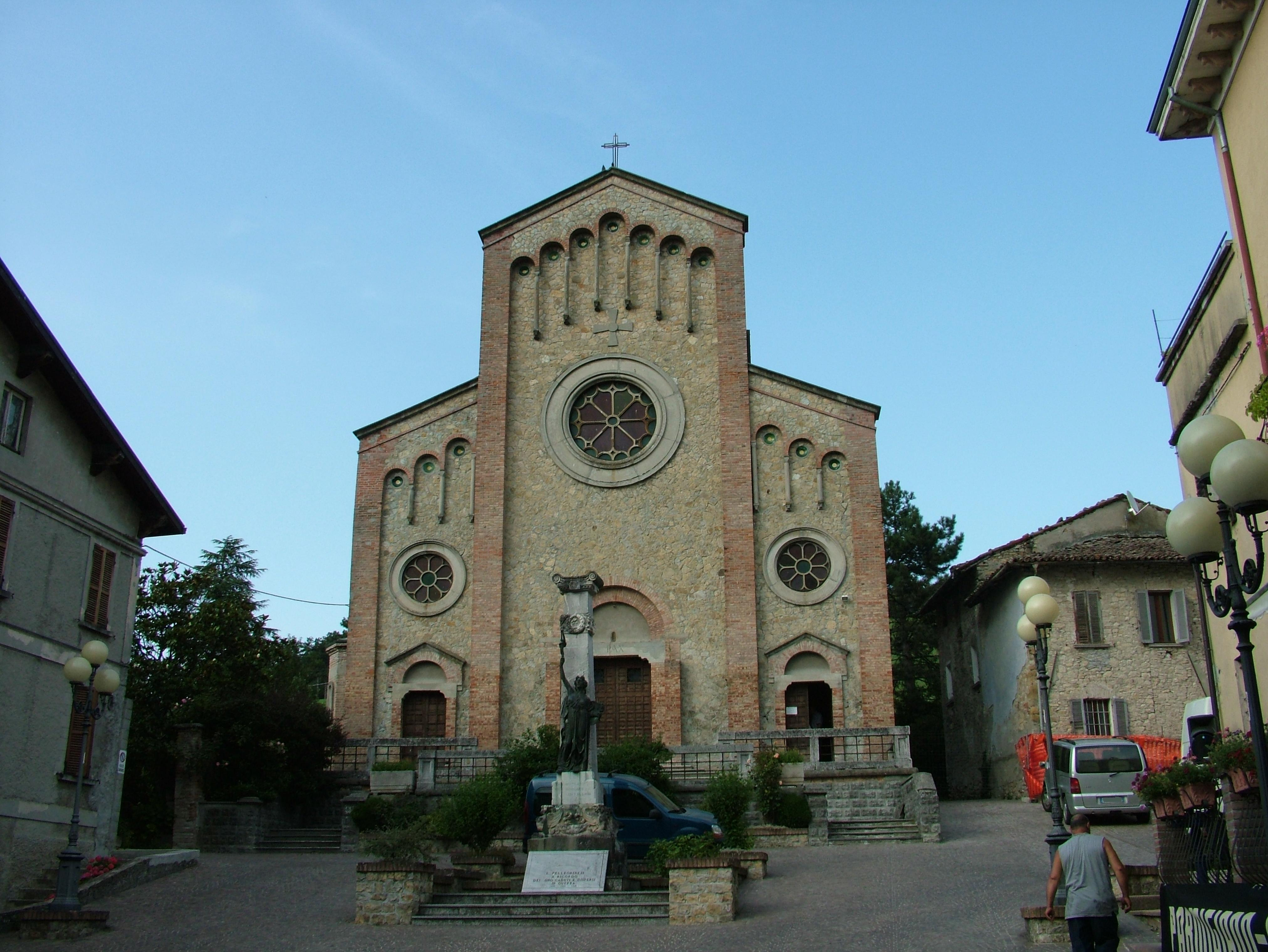 Parish Church dedicated to St. Joseph, Pellegrino Parmense, province of Parma, Italy.